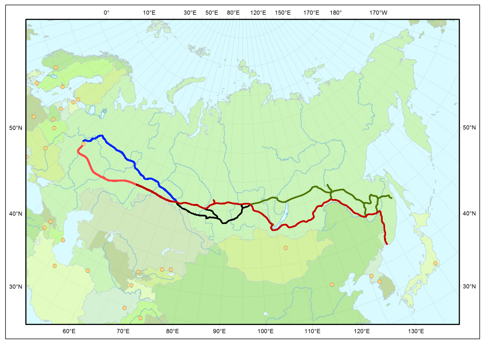 Map of Trans-Siberian railway Trans-Siberian Railway, historical line = in red Main actually used line between Moscow and Omsk = in blue Baikal Amur Mainline = in green Southern branch line in Siberia between Omsk and Tayshet = in black Capitals = yellow points